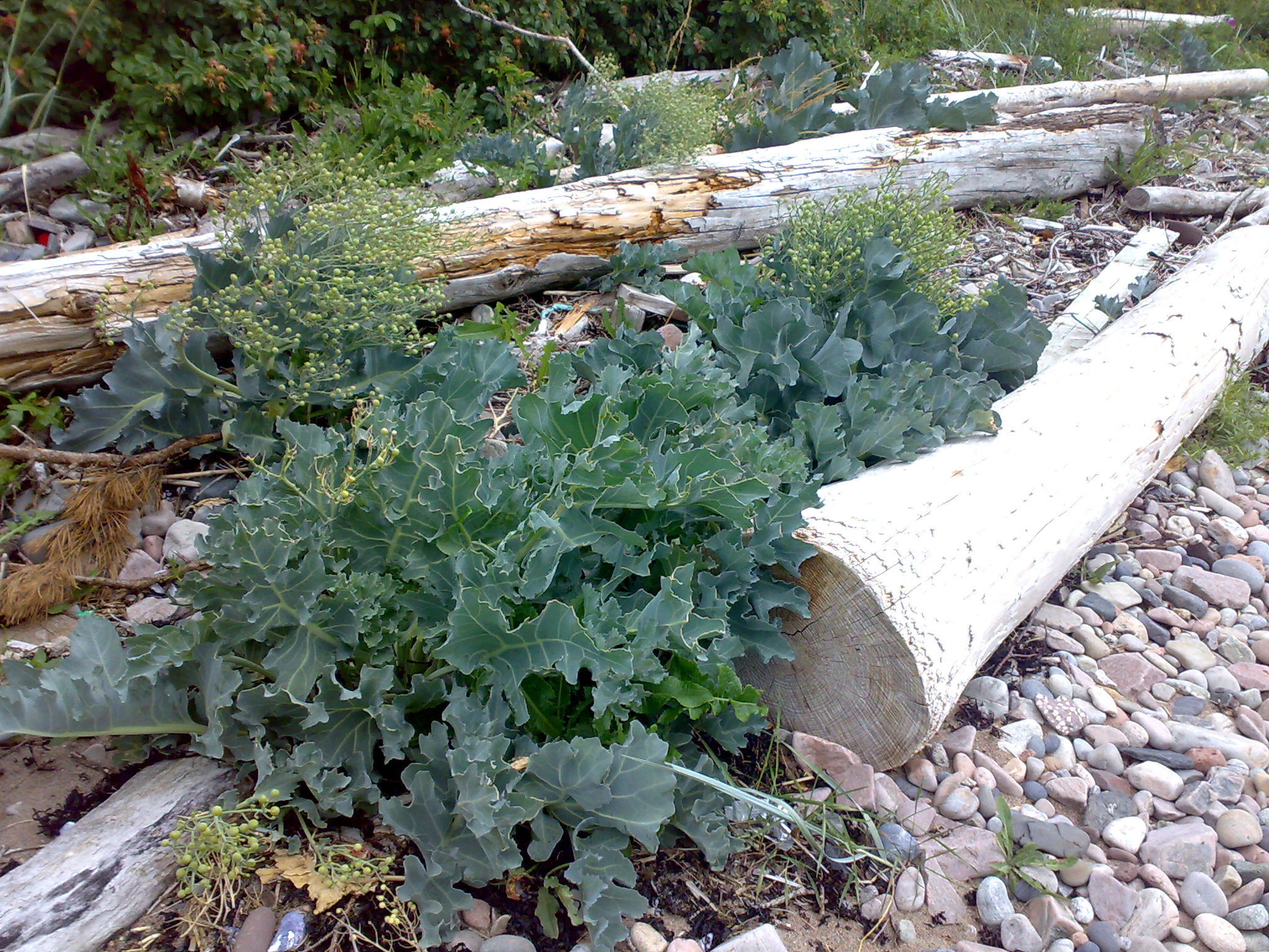 Crambe maritima in Sandbukta, Hurum, Norway